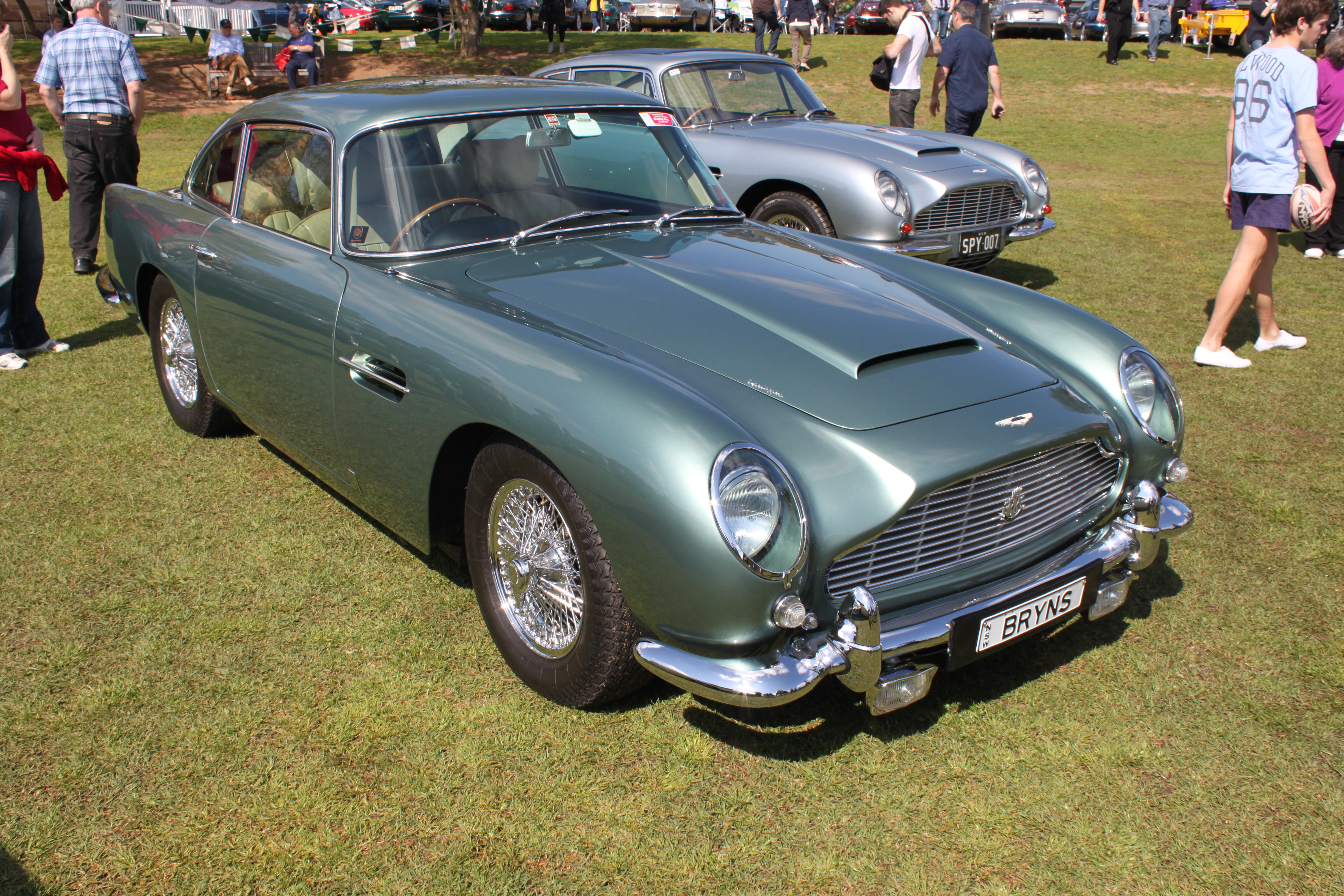 Aston Martin DB5